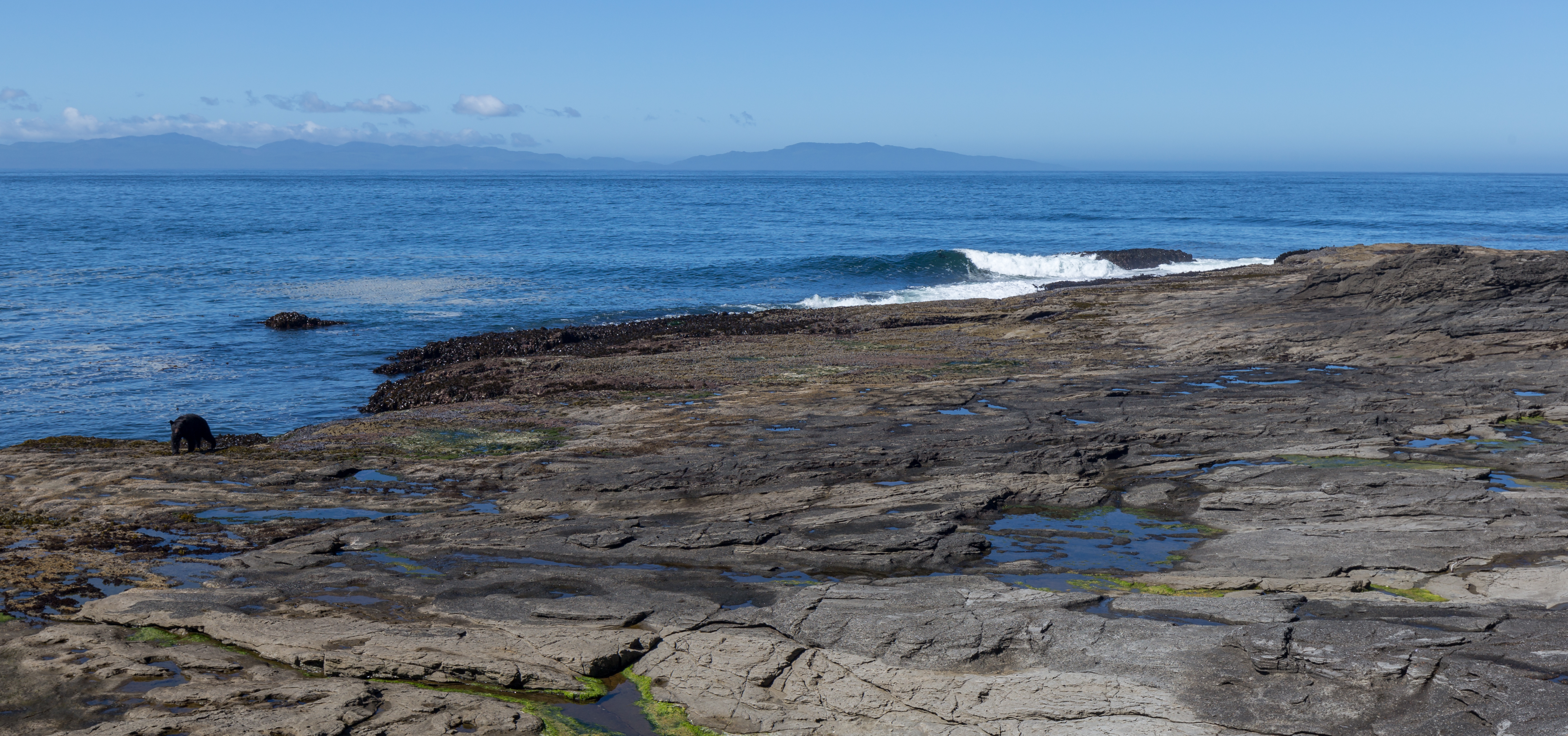 Rocky coast between Little Kuitshe Campsite and Payzant Campsite, Juan de Fuca Trail, Vancouver Island, British Columbia, Canada. On the left American black bear (Ursus americanus) can be seen in its natural habitat, browsing sea weed and feasting on washed up mussels